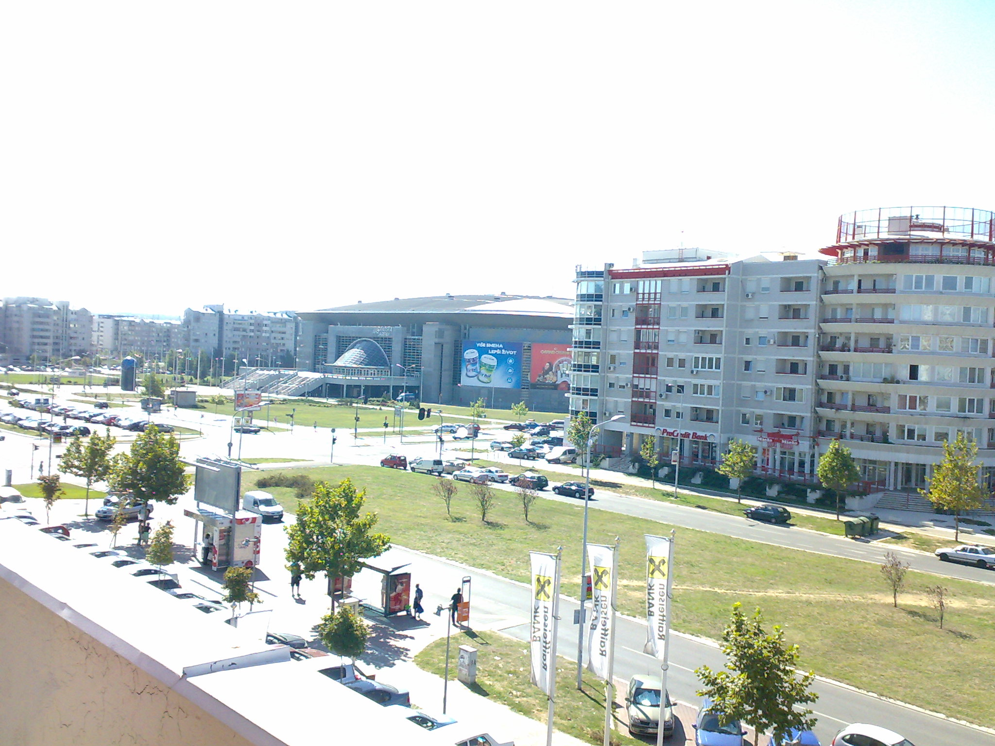 Novi Beograd scene, with Belgrade Arena